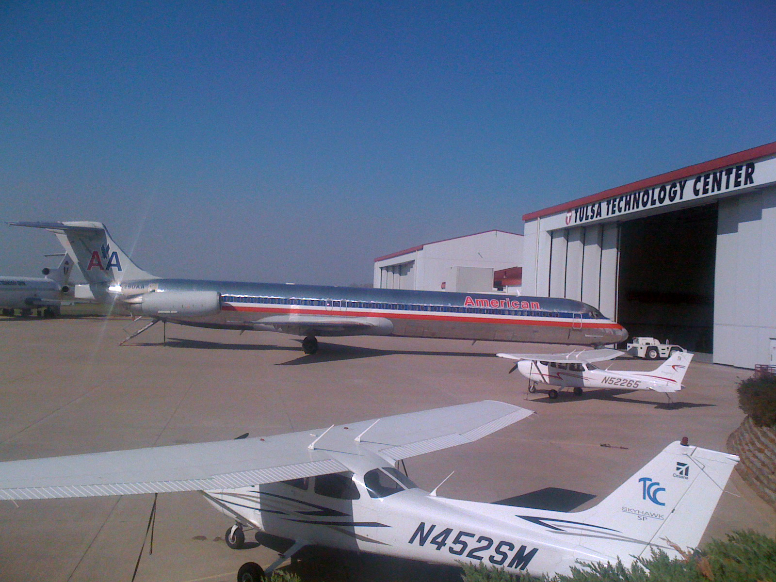 Tulsa Technology Center's MD-80